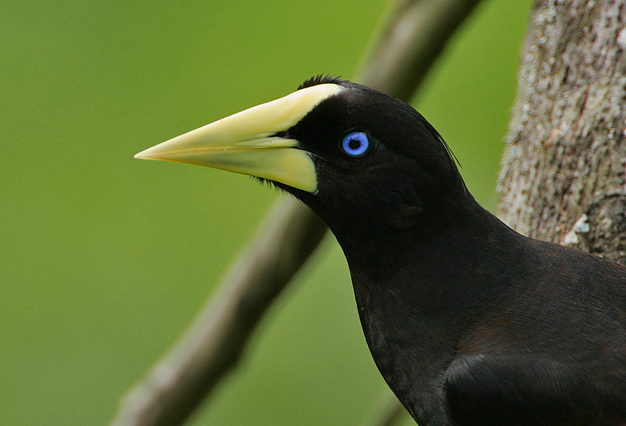 A Crested Oropendola at Asa Wright Nature Centre, Northern Range, Trinidad, Trinidad and Tobago.